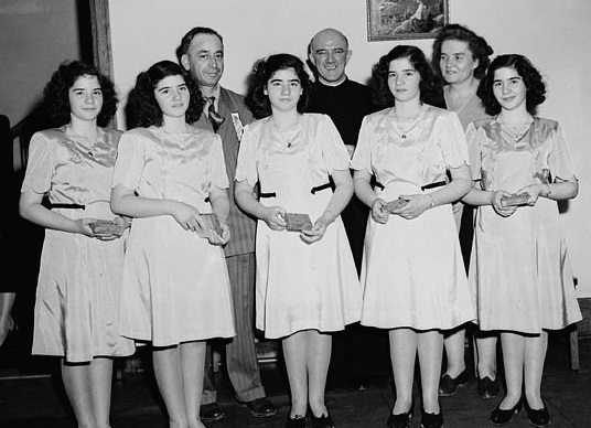 The Dionne quintuplets, accompanied by Mrs Olive Dionne and Frère Gustave Sauvé, take part in a program of religious music at Lansdowne Park, during the five day Marian Congress which prayed for peace and celebrated the centenary of the Ottawa archdiocese.